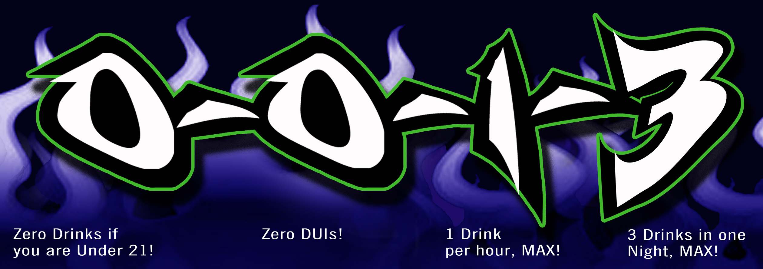 explanation of 0-0-1-3